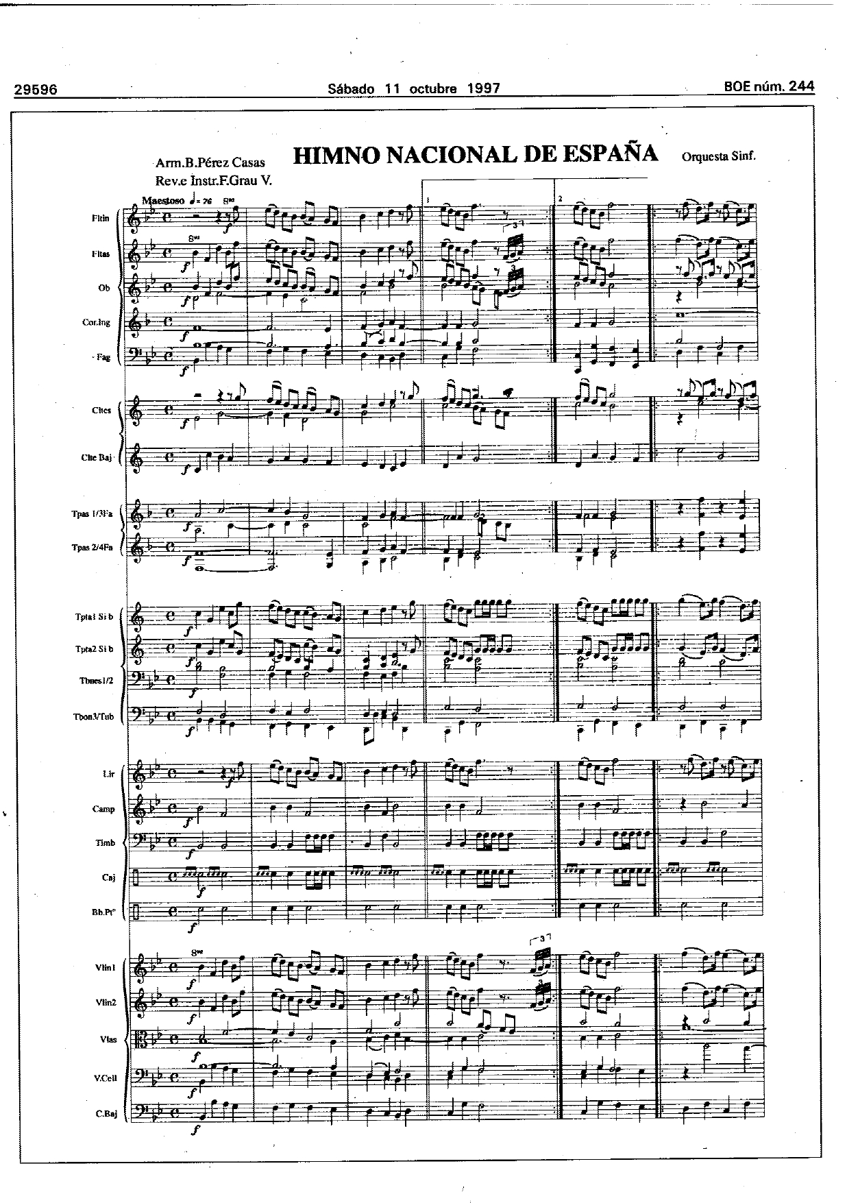 Score of the Spanish Royal March (Extract)